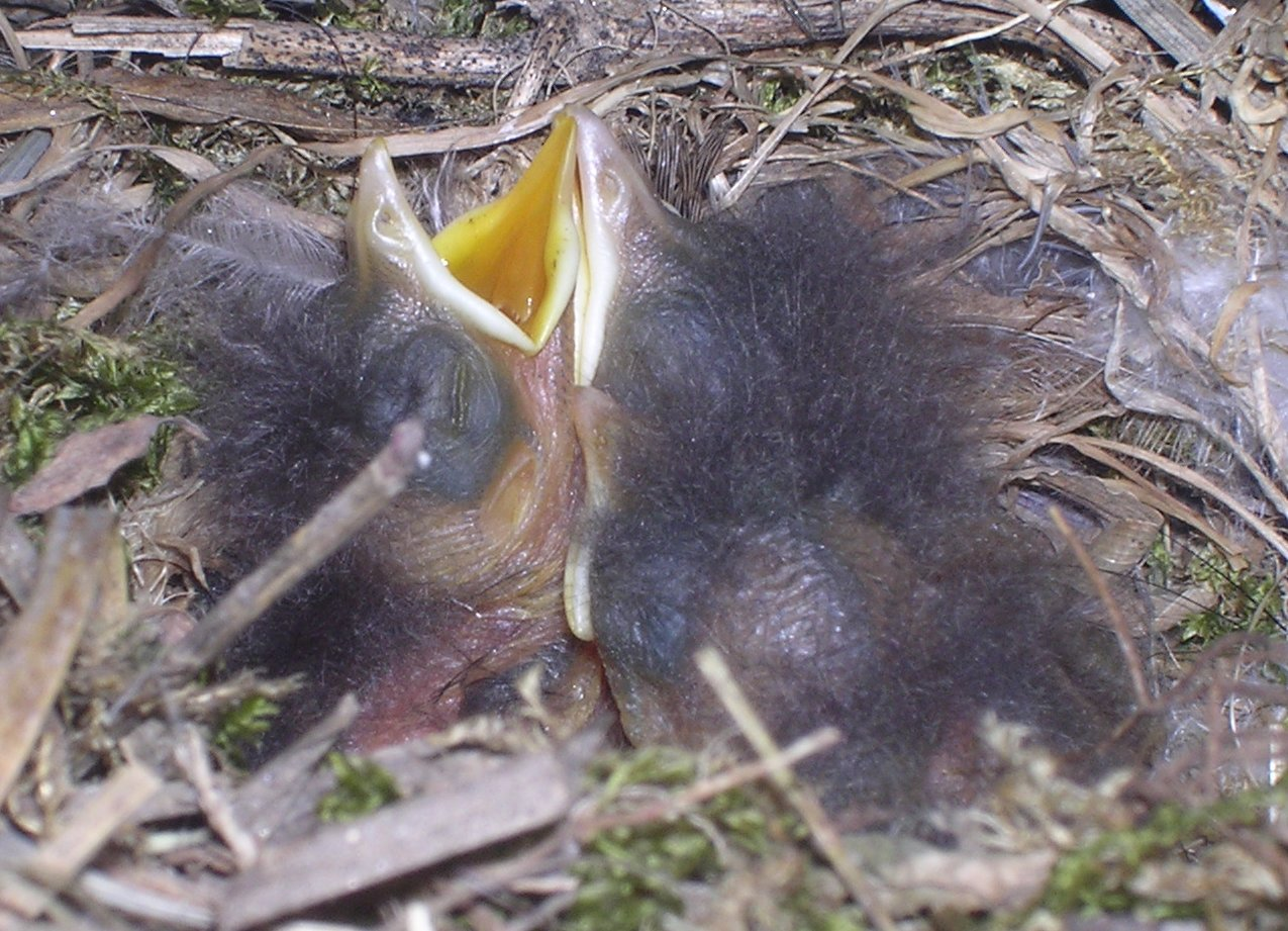 Phoenicurus phoenicurus 5 days old